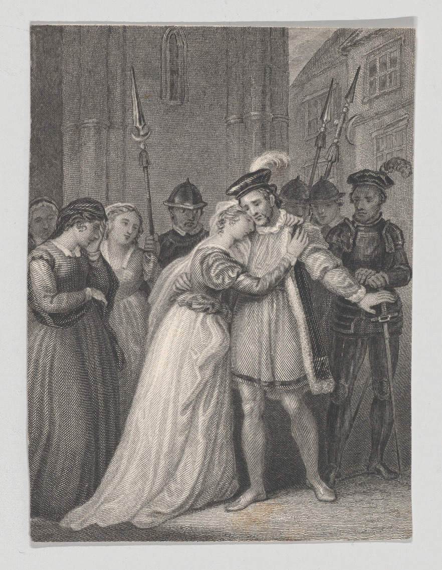 Print; Prints